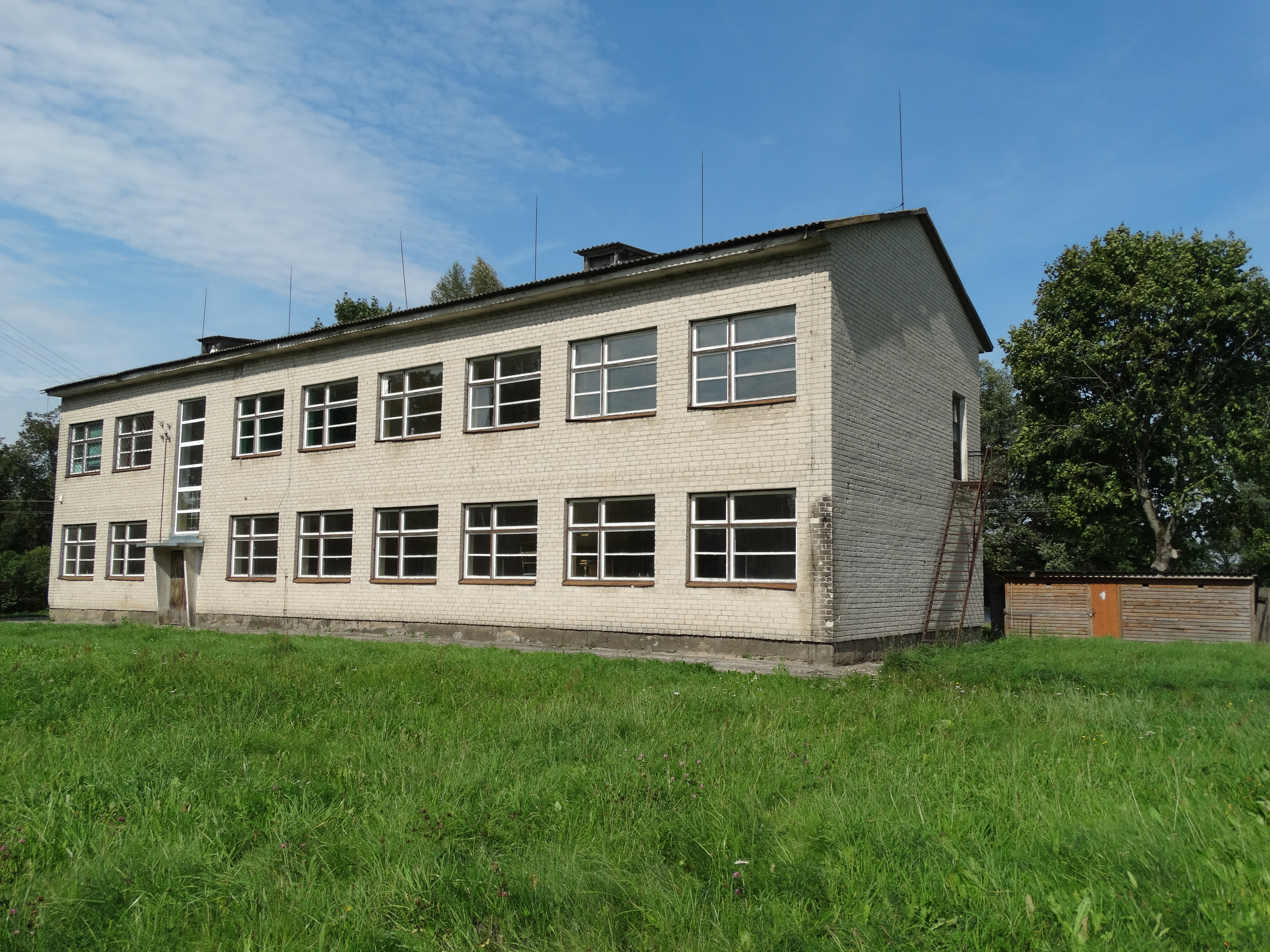 School, Pramedžiava, Raseiniai district, Lithuania